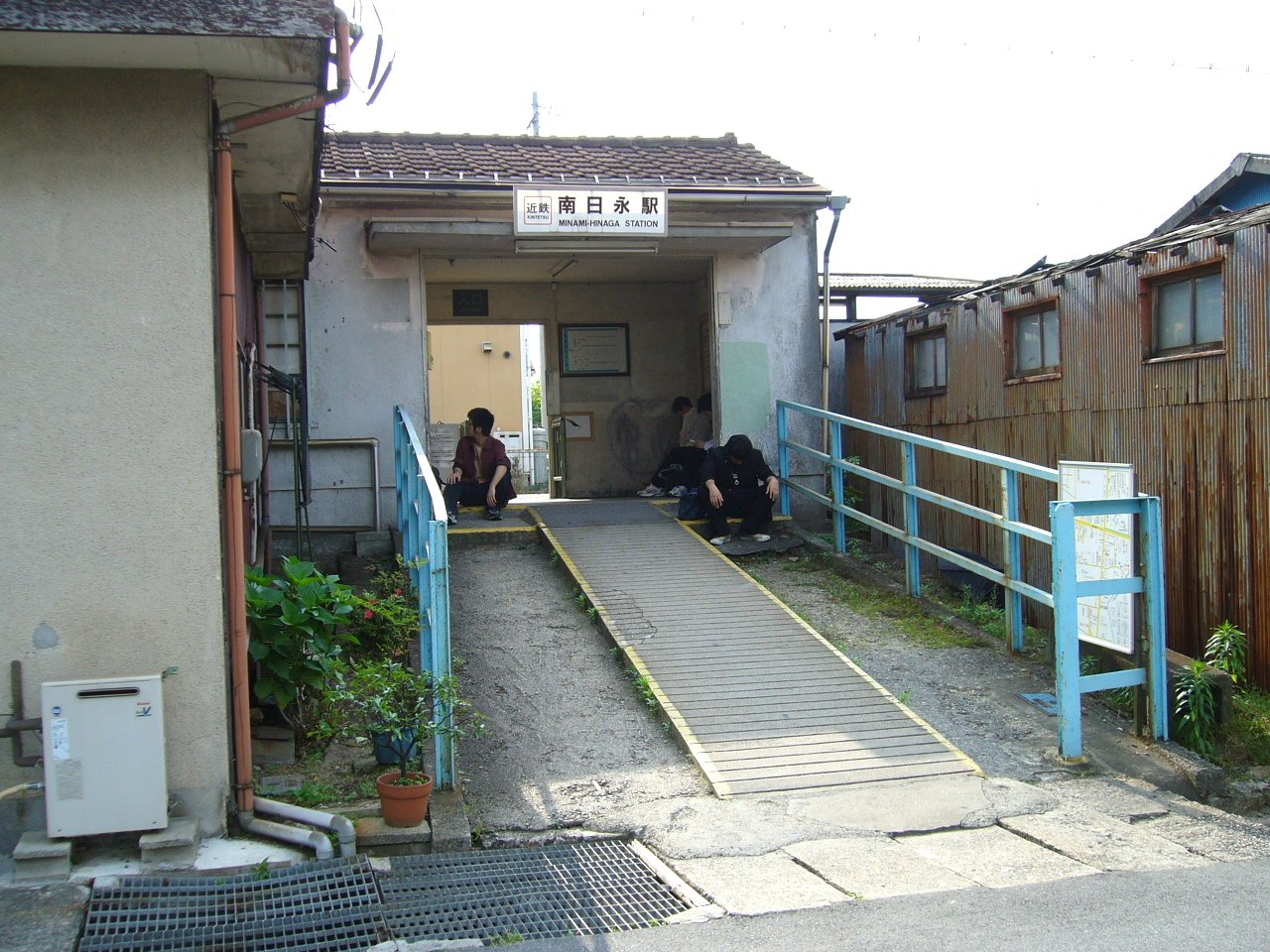 Minami-Hinaga Station on the Yokkaichi Asunarou Railway Utsube Line